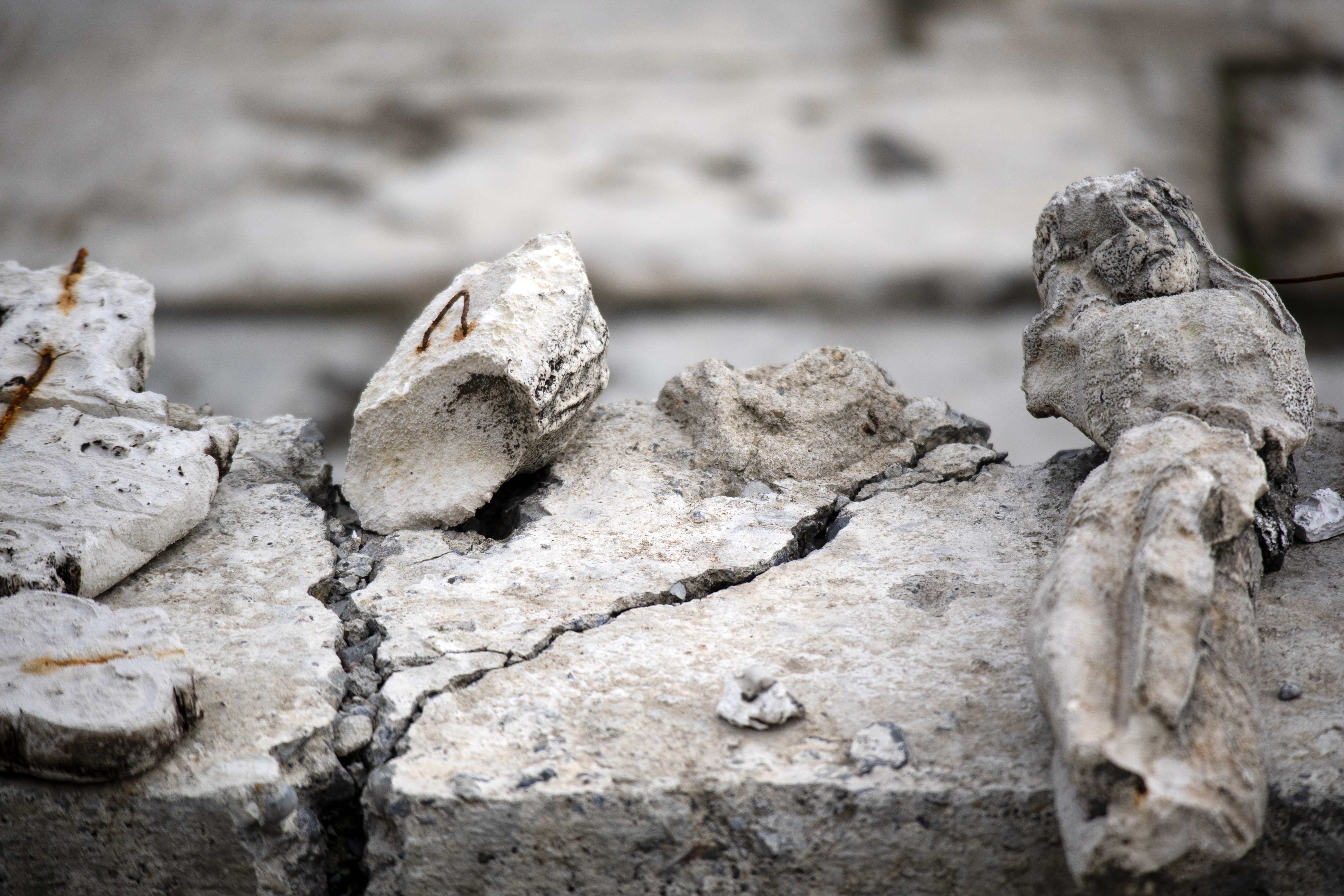 St. George Church, Grigol Robakidze Ave, T'bilisi, Georgia